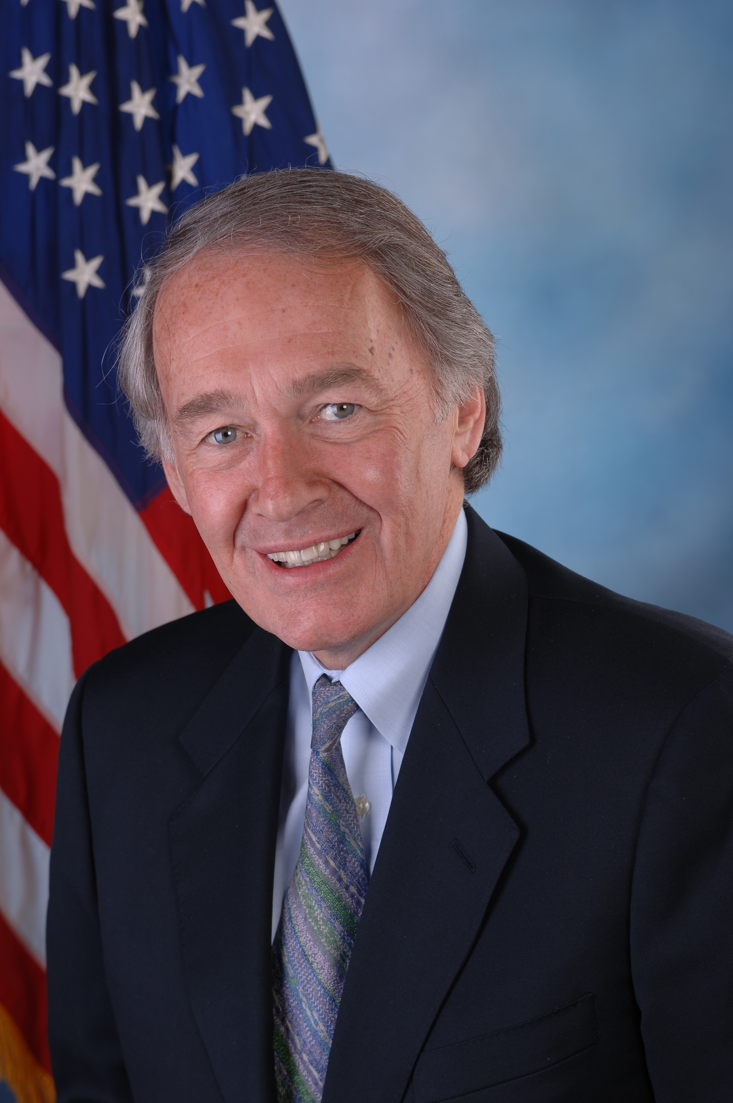 Ed Markey, U.S. Congress